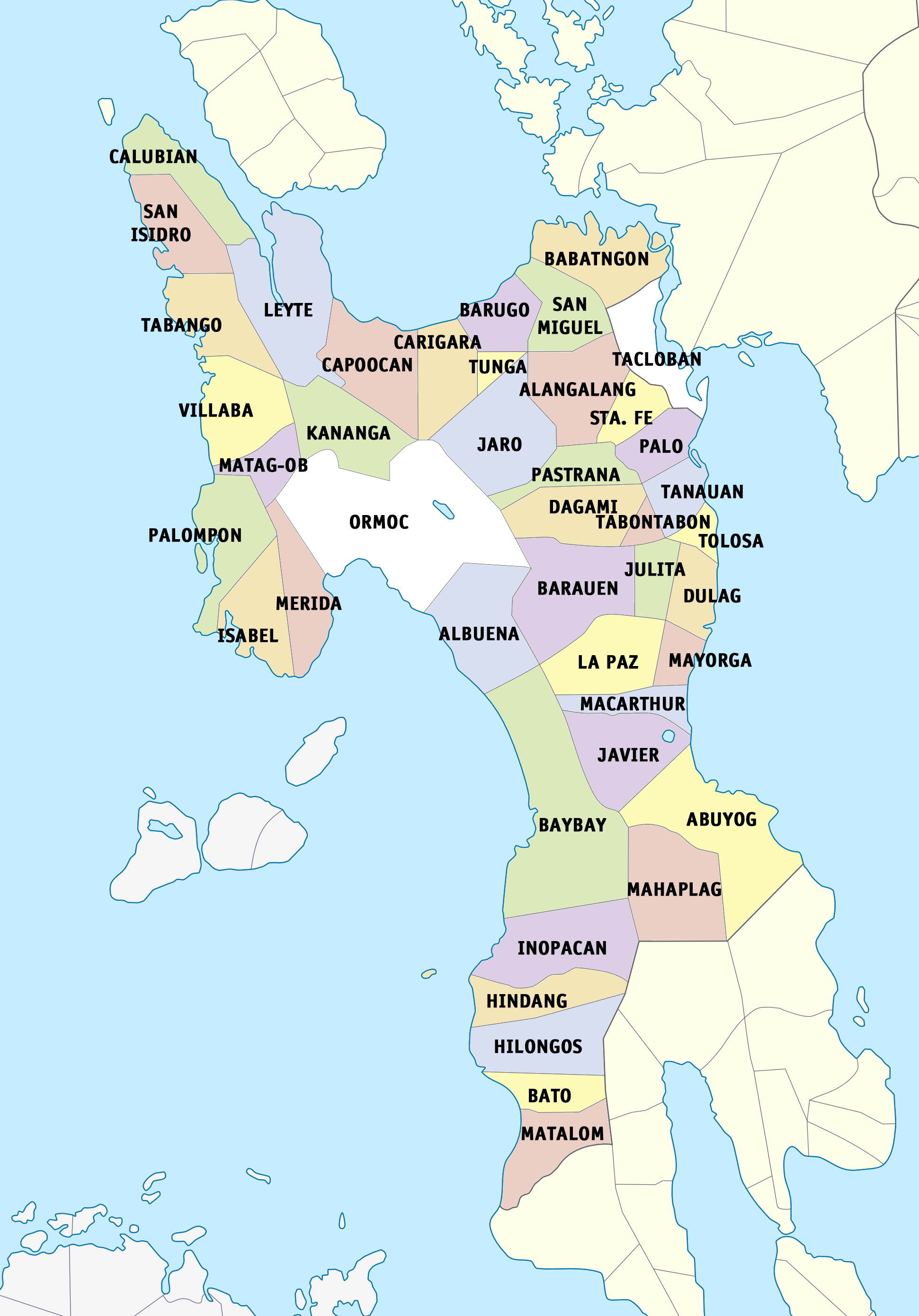 Political map of Leyte, Philippines